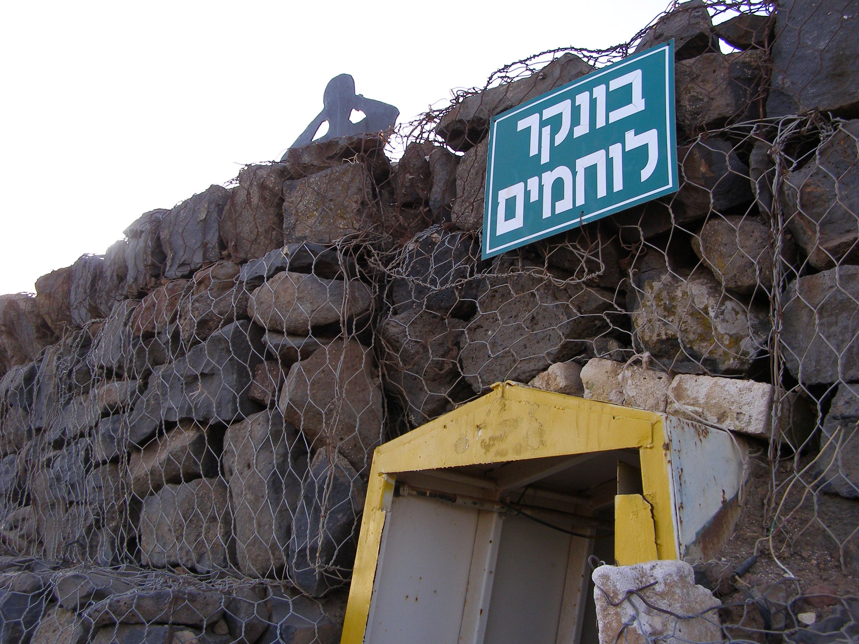 The restored entrance to Mt. Bental's military bunker.